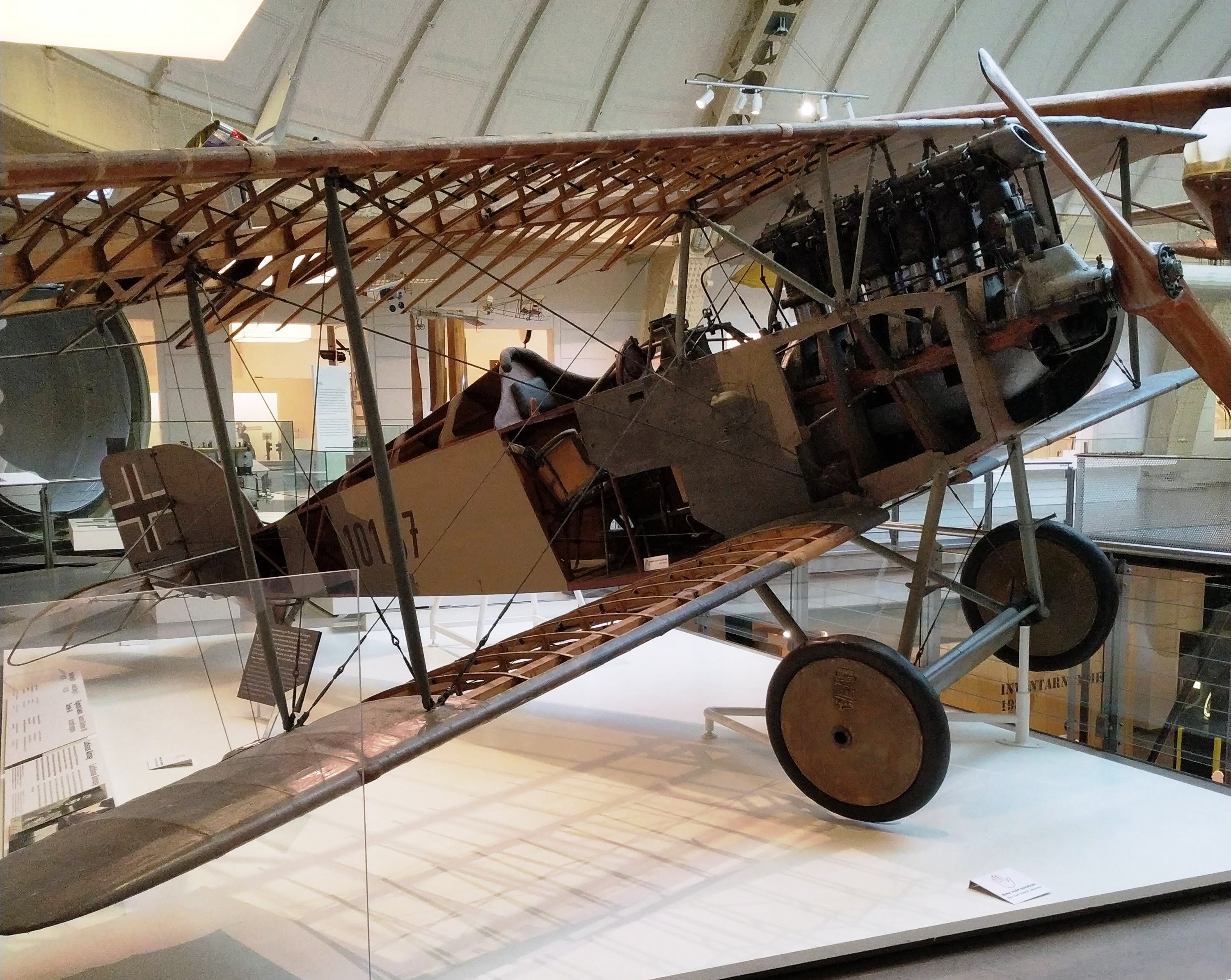 Aviatik Berg D 1 Partial cross section of the aircraft